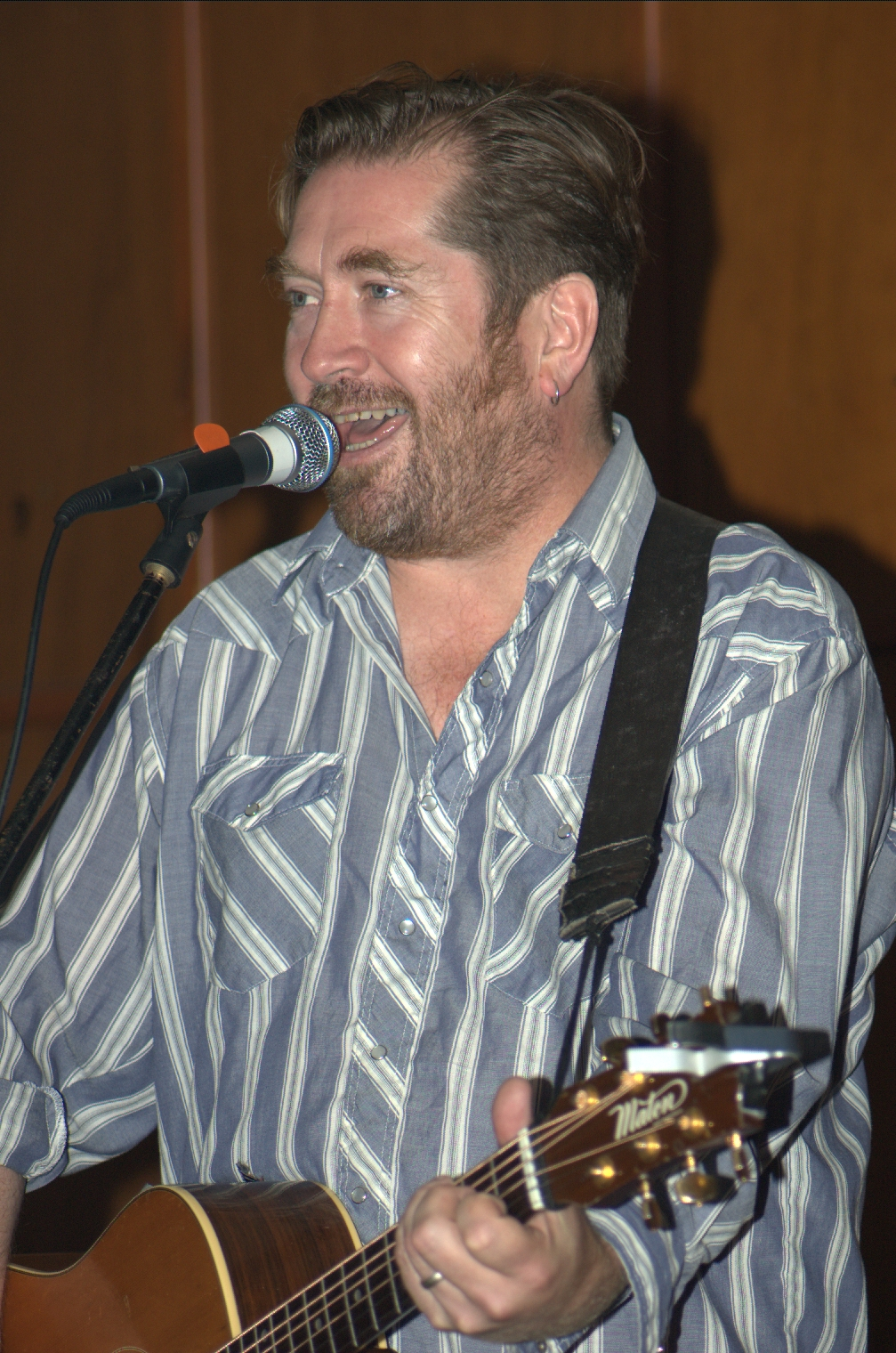 Australian singer-songwriter Mick Thomas performing at the Ebberley Arms, Barnstaple, UK on 11th May 2007.